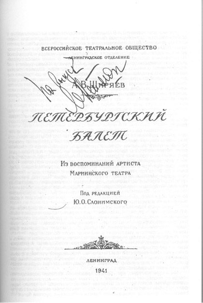 The title page of not published book of A. V.Shiryaev